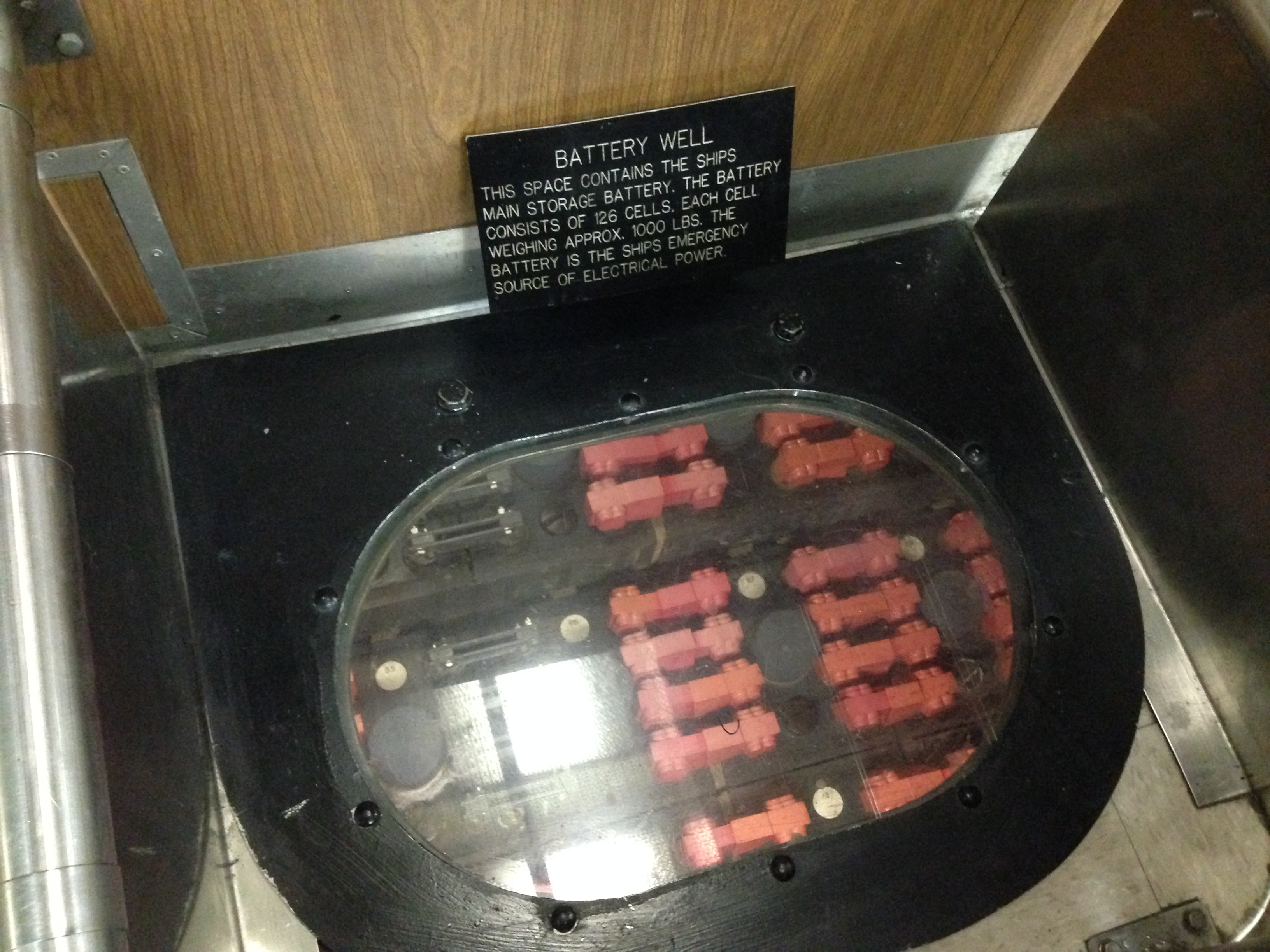 Battery well of USS Nautilus, the first nuclear-powered submarine. The batteries are for emergency use if the reactors shut down.